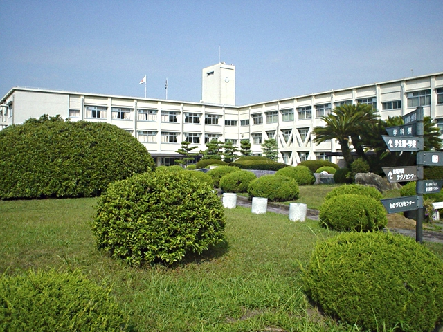 Toyota_National_College_of_Technology's main schoolhouse.